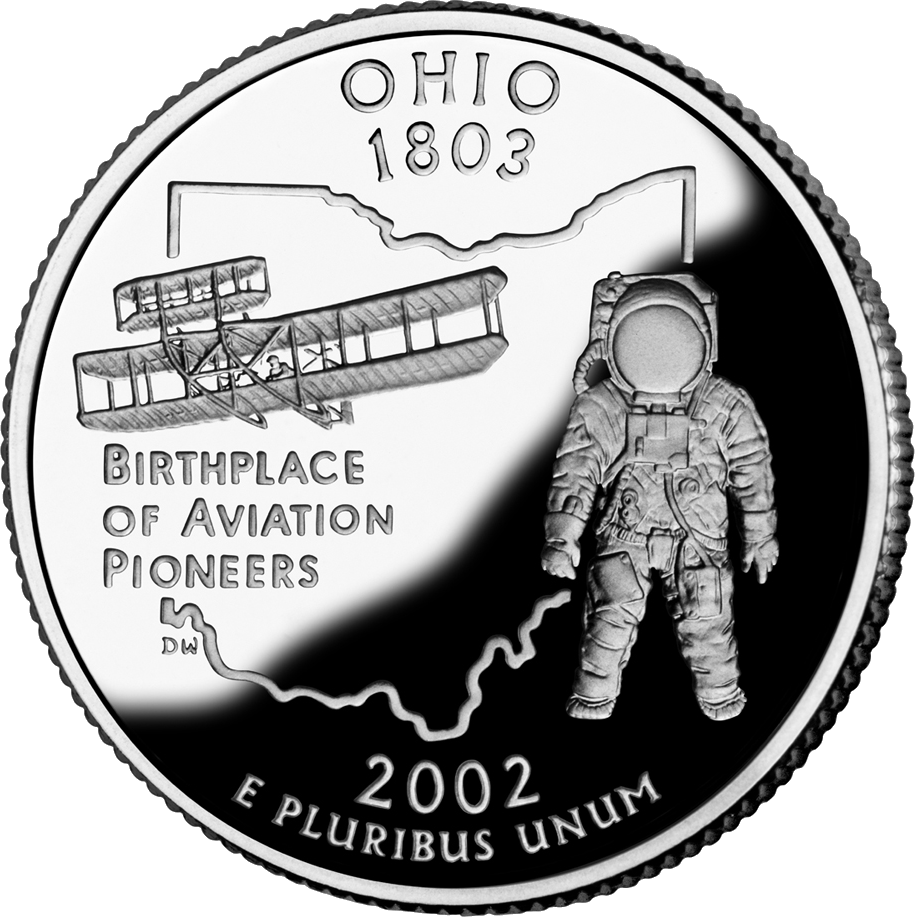 Removed background, cropped, and converted to PNG with Macromedia Fireworks.